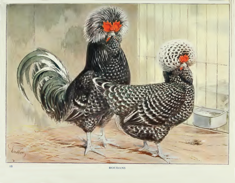 Paint by J.W.Ludlow